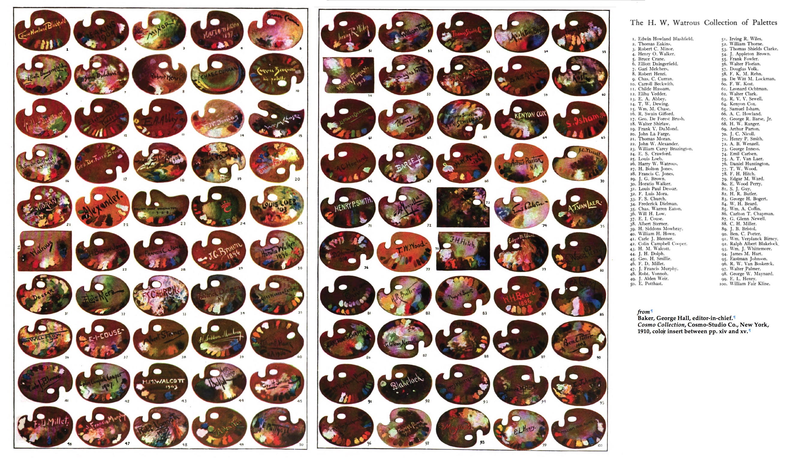 The H.W. Watrous Collection of Palettes: 100 painter's palettes each signed by the artist, collected by Harry Watrous; published in the 1908 book Cosmo Collection[1]; displayed in 1911 at The Union League Club in New York. Current location unknown.